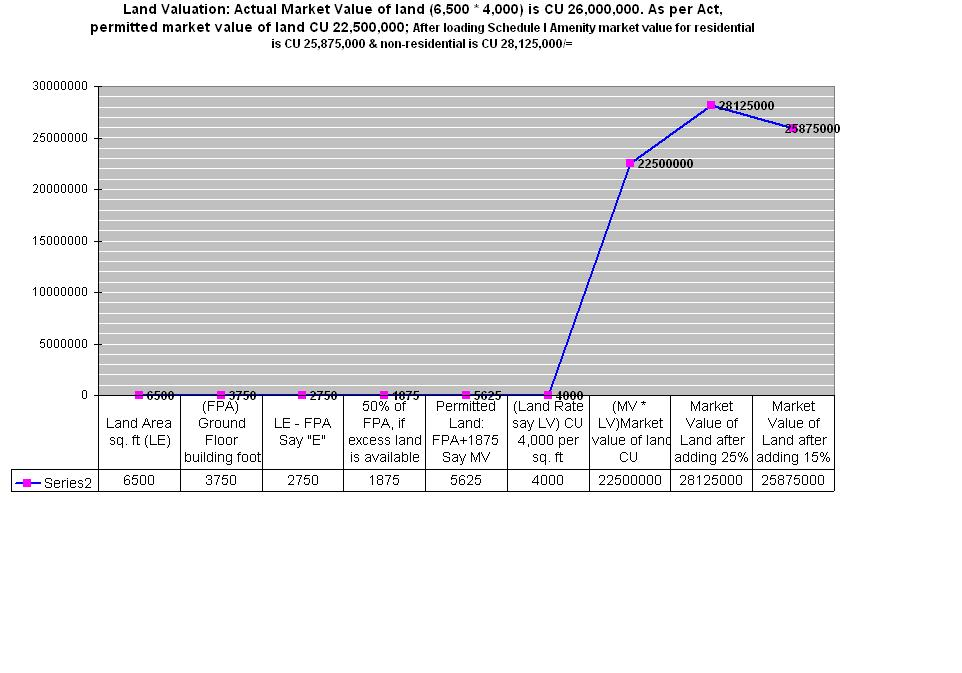 Rental Valuation-Land